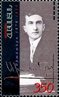 Stamp of Armenia